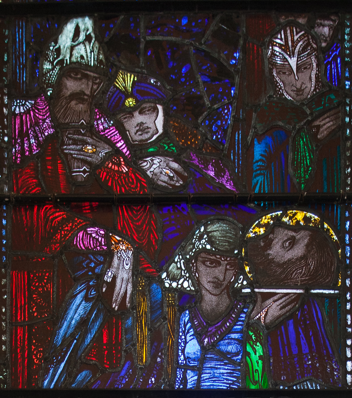 Middle section of the stained glass window at the right side of the altar, depicting the Beheading of John the Baptist by Harry Clarke, created in 1925. Harry Clarke (1889–1931) Alternative names Henry Patrick ClarkeDescriptionBritish artistDate of birth/death 17 March 1889 6 January 1931 Location of birth/death Dublin ChurAuthority control : Q981851 VIAF: 64809213 ISNI: 0000 0000 7729 3084 ULAN: 500005071 LCCN: n80127749 NLA: 35207551 WorldCat creator QS:P170,Q981851